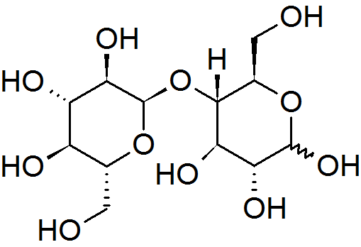 A representation of the structure of maltose in which both glucose fragments are in the pyranose form: this diagram can represent either the α-anomer or the β-anomer.